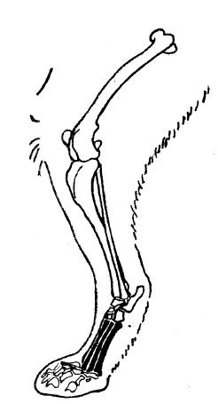 Digitigrade mammal (Dog)